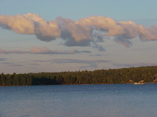 Rock Pile North of Peanut Island easterly view of South Twin